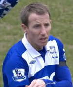 Lee Bowyer captured for Birmingham City against Wolverhampton Wanderers in February 2010.